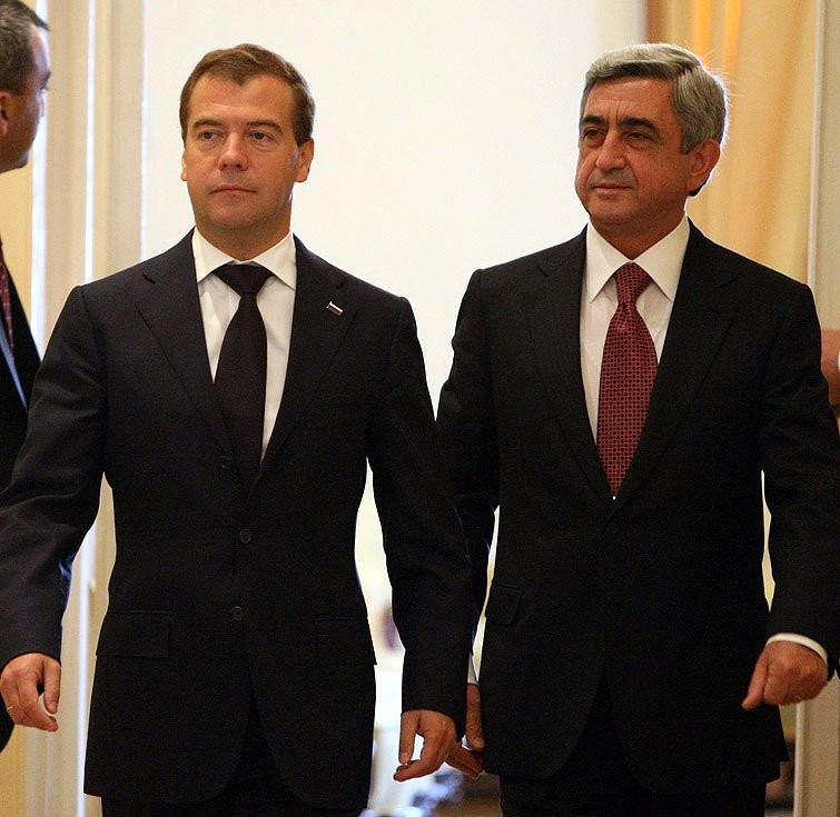 With President of Armenia Serzh Sargsyan.